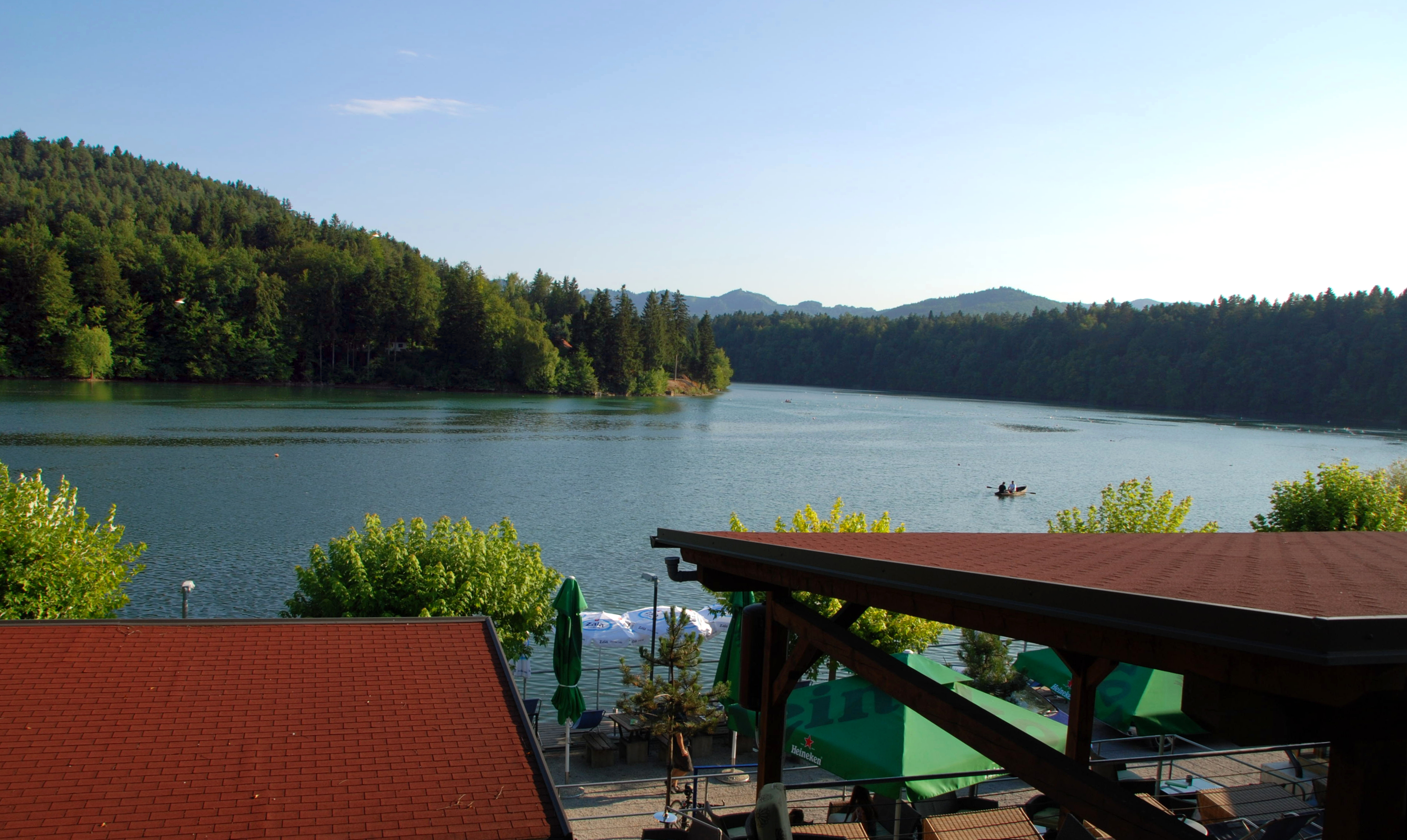 Zbilje Lake next to the village of Zbilje (Municipality of Medvode).